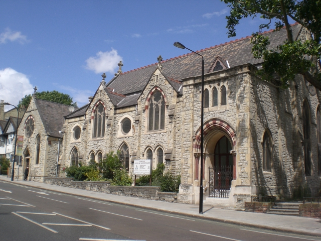 The Hampstead Seventh Day Adventist Church, Haverstock Hill NW3